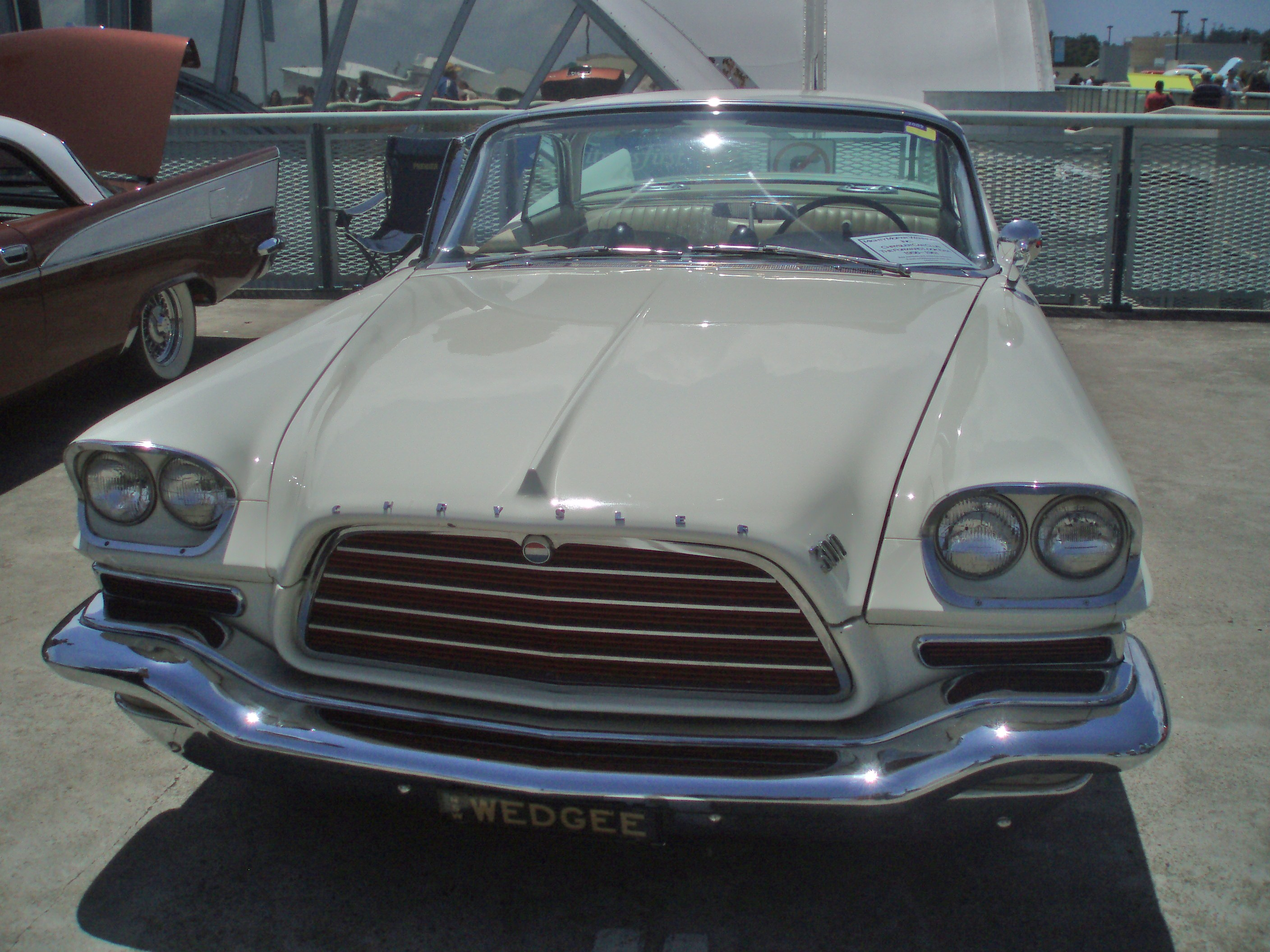 1959 Chrysler 300E coupe. Taken at the 2010 New South Wales All American Day, held at Castle Towers Shopping Centre, Castle Hill, Sydney.